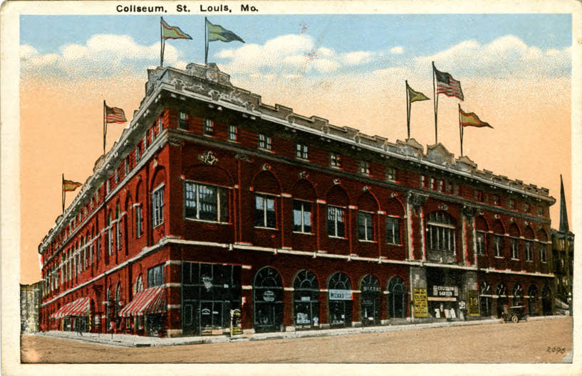 Coliseum